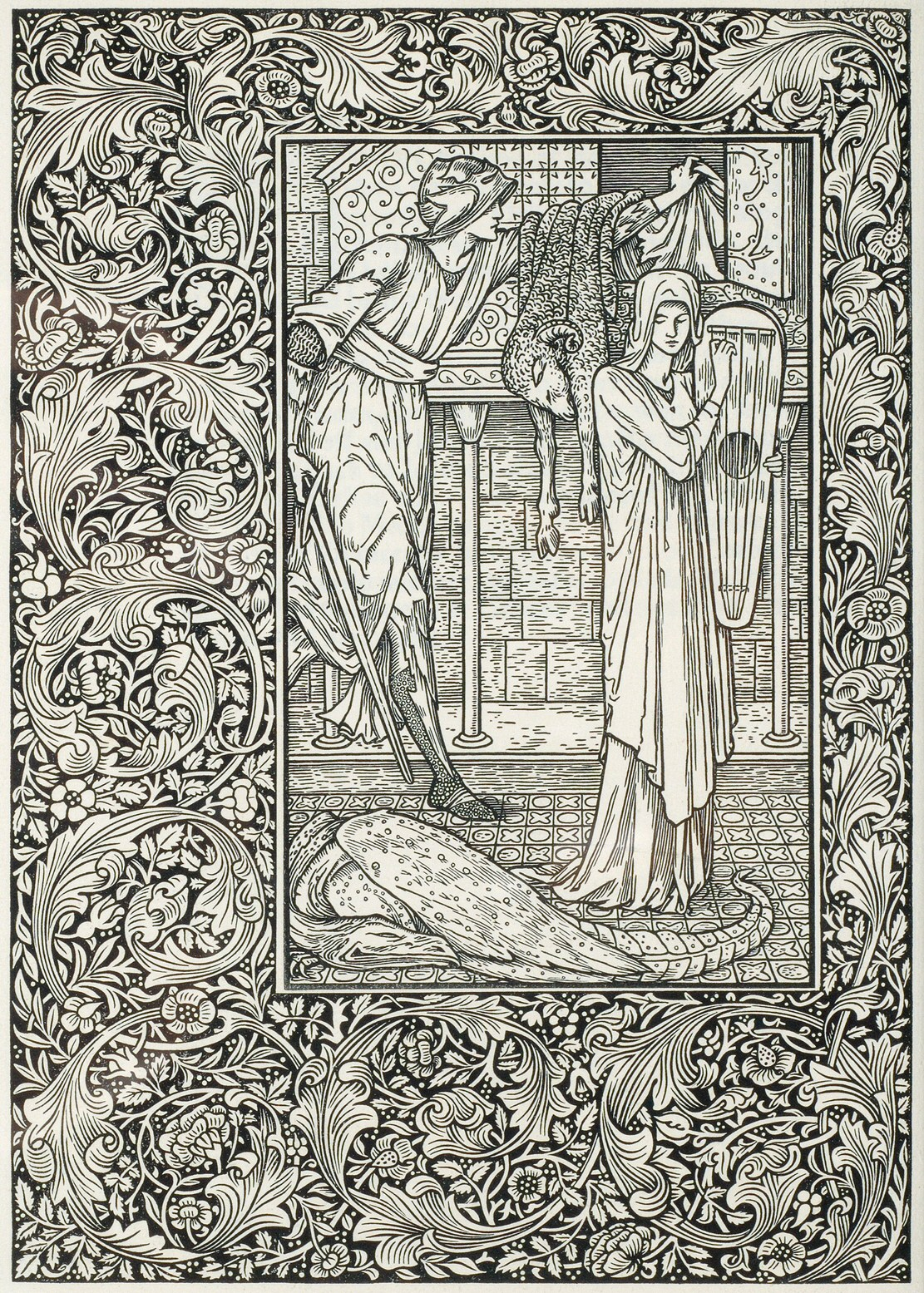 Frontispiece of Life and Death of Jason by William Morris, published by Kelmscott Press, 1895